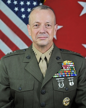 General John R. Allen, USMC Commander, International Security Assistance Force and Commander, U.S. Forces Afghanistan